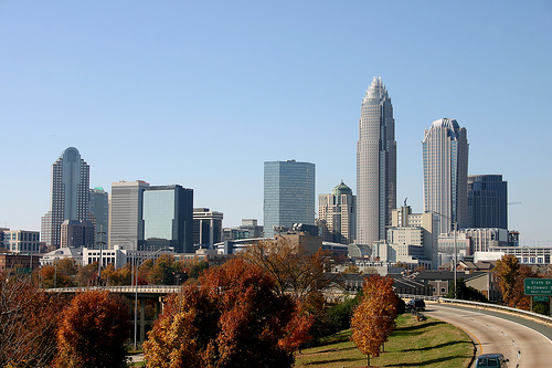 Taken in fall of Charlotte, NC